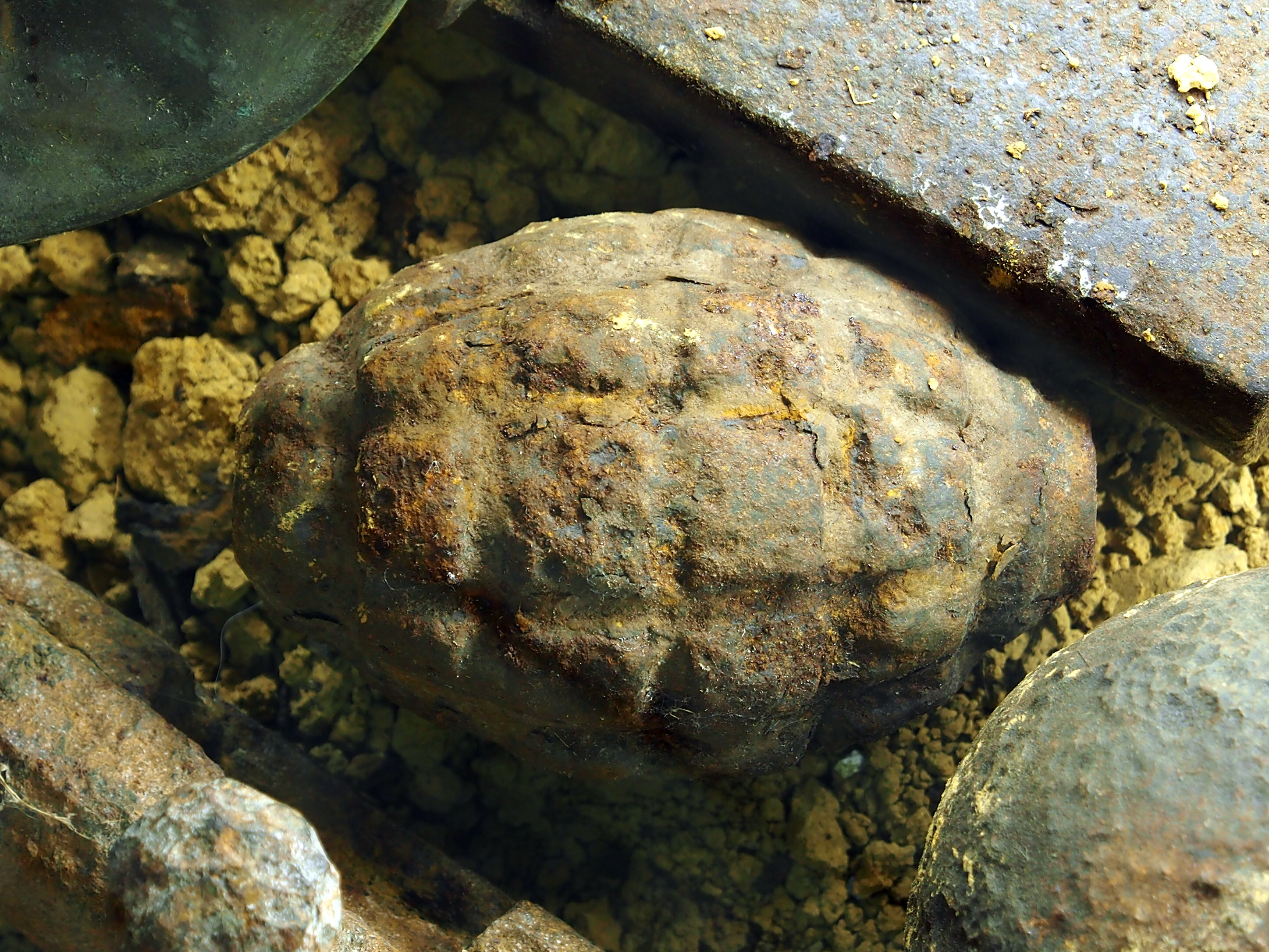 Photographed in the Musée Somme 1916 of Albert (Somme), France.